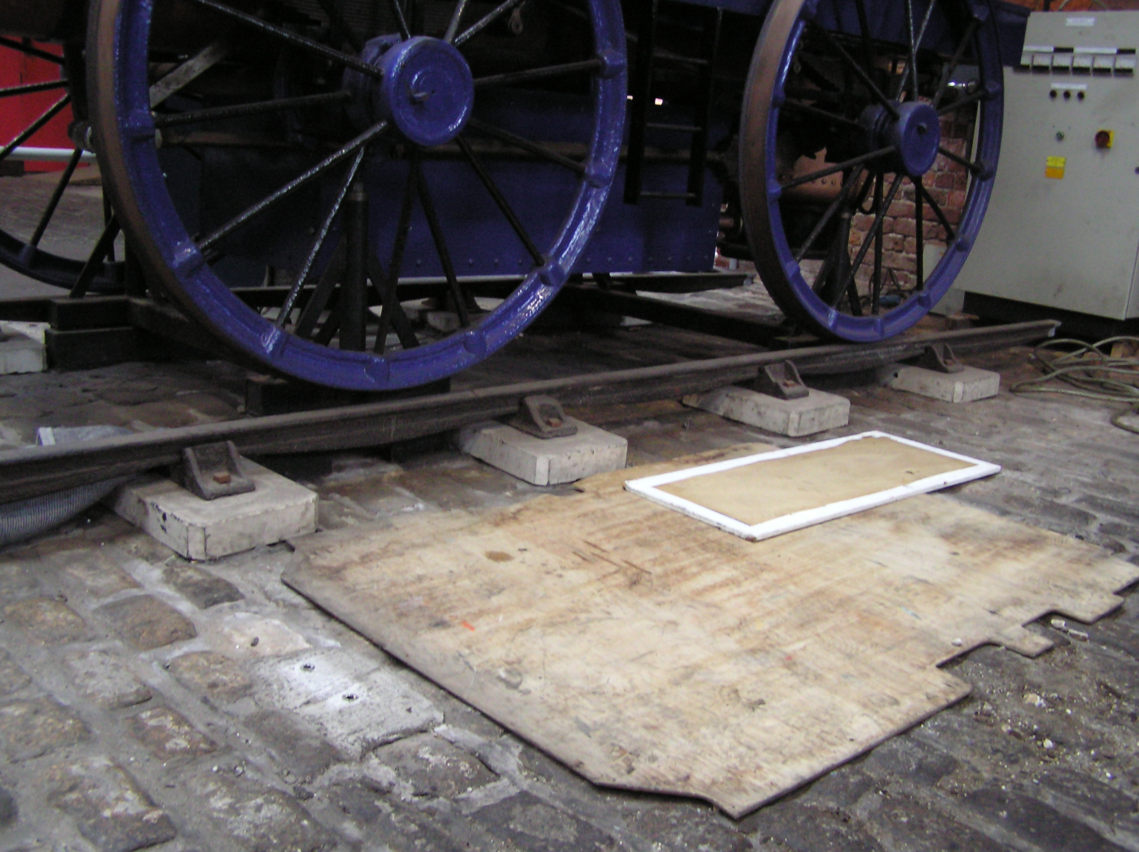 Long fish bellied rails in the Manchester Museum of Science and Industry